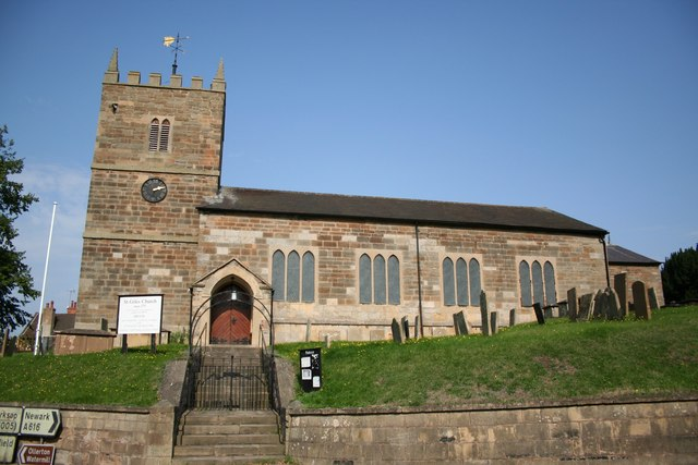 St Giles' parish church, Ollerton, Nottinghamshire, seen from the southwest